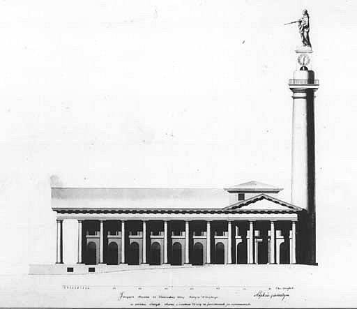 The first project of Vilnius City Hall by Lithuanian architect Laurynas Gucevičius